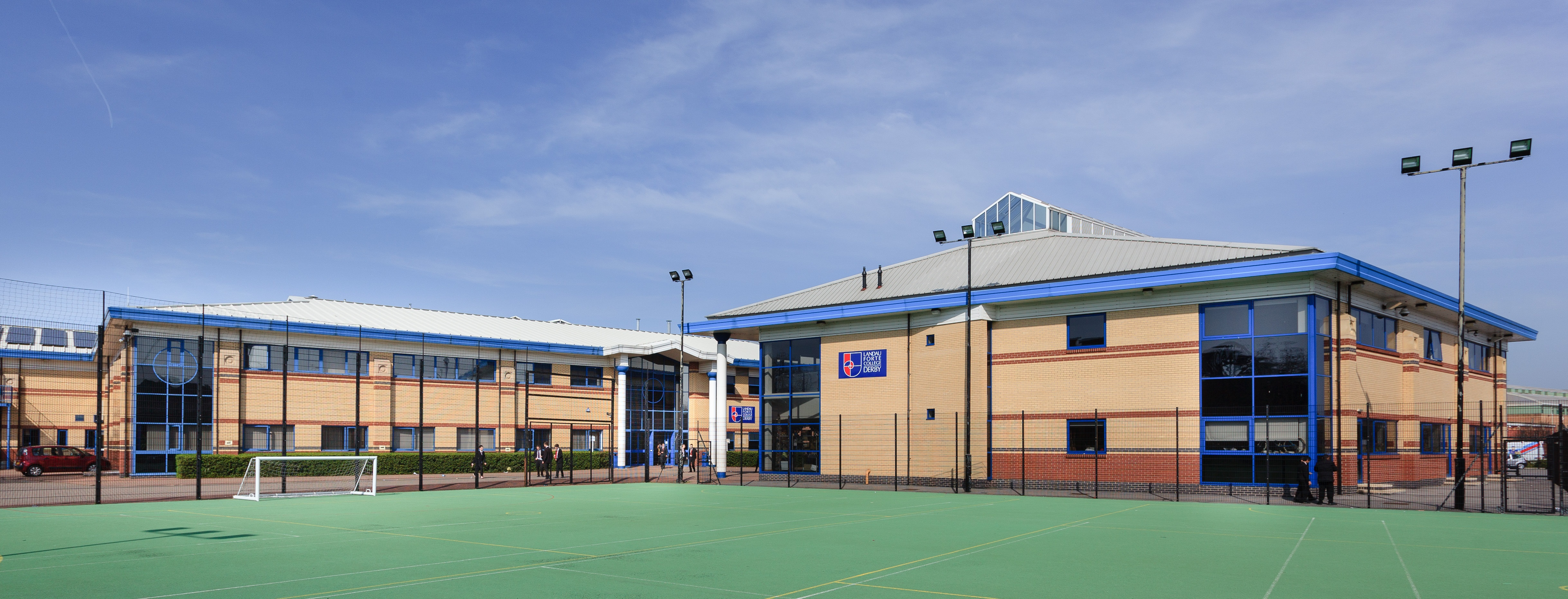 Landau Forte College Buildings